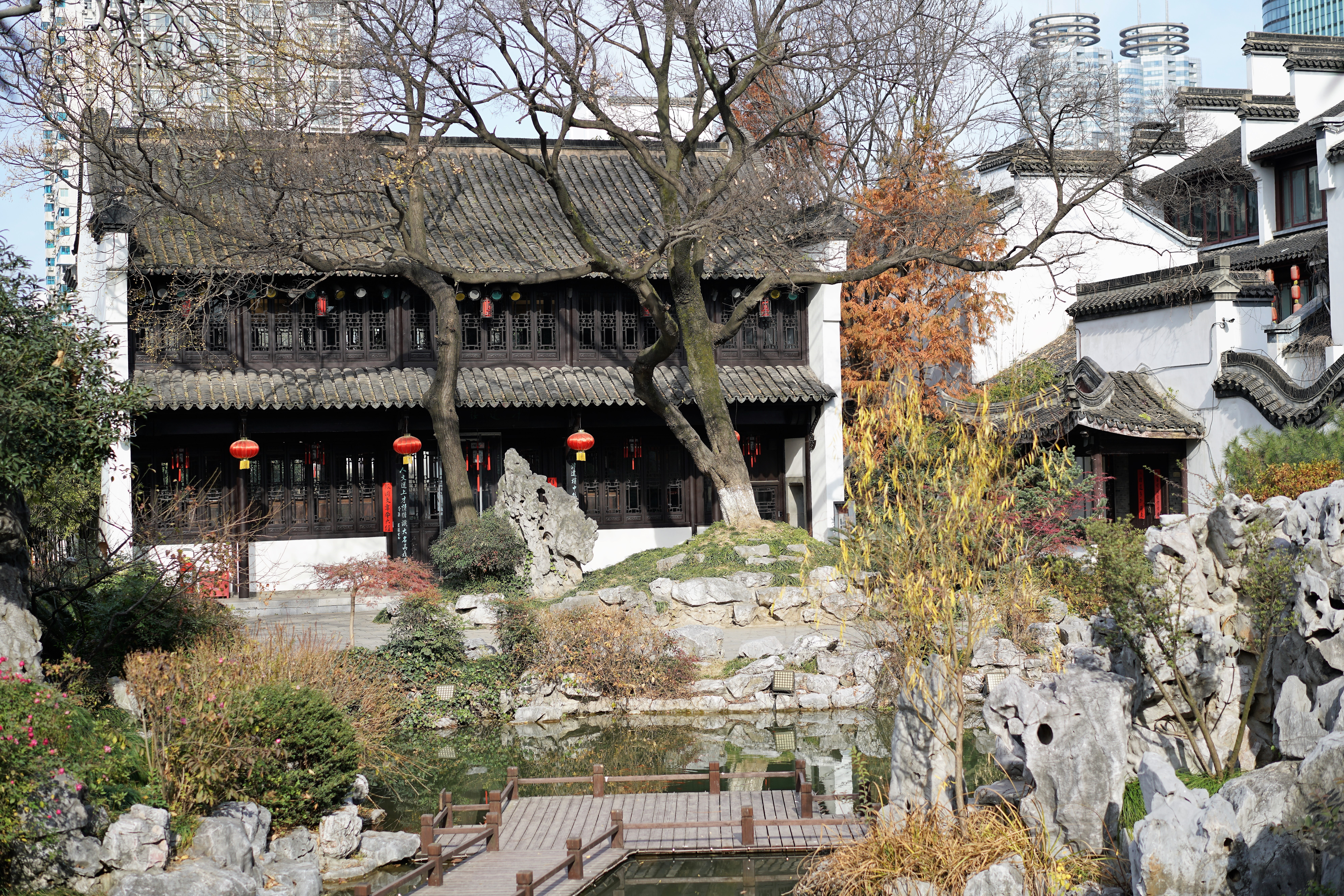 津逮楼。。